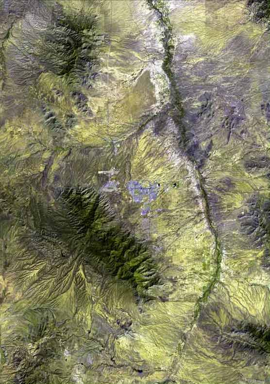 Sierra Vista, Arizona, from Space. The raw satellite imagery shown in these images was obtain from NASA and/or the US Geological Survey. Post-processing and production by